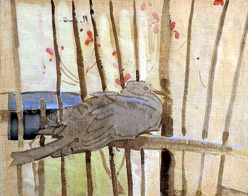 The Dove